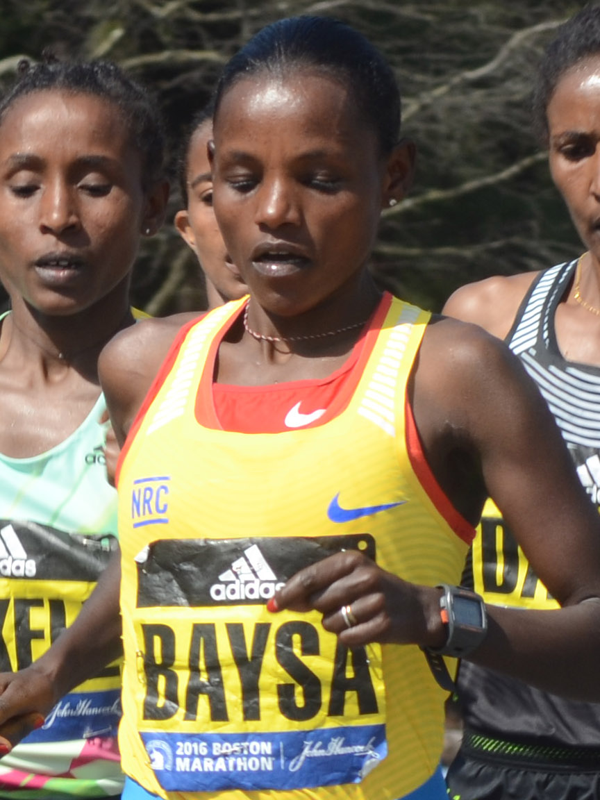 Atsede Baysa Tesema, female winner of 2016 Boston Marathon, approaching the halfway point